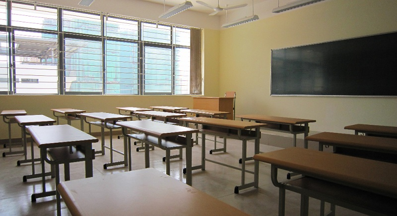 A classroom in Hanoi - Amsterdam High School's new campus.